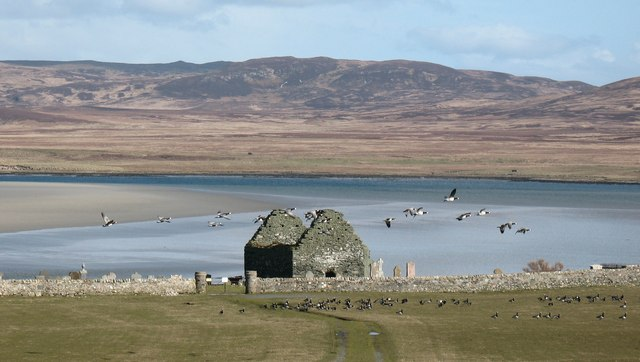 Geese by the chapel A large flock of barnacle geese take flight as the photographer approaches Kilnave chapel.